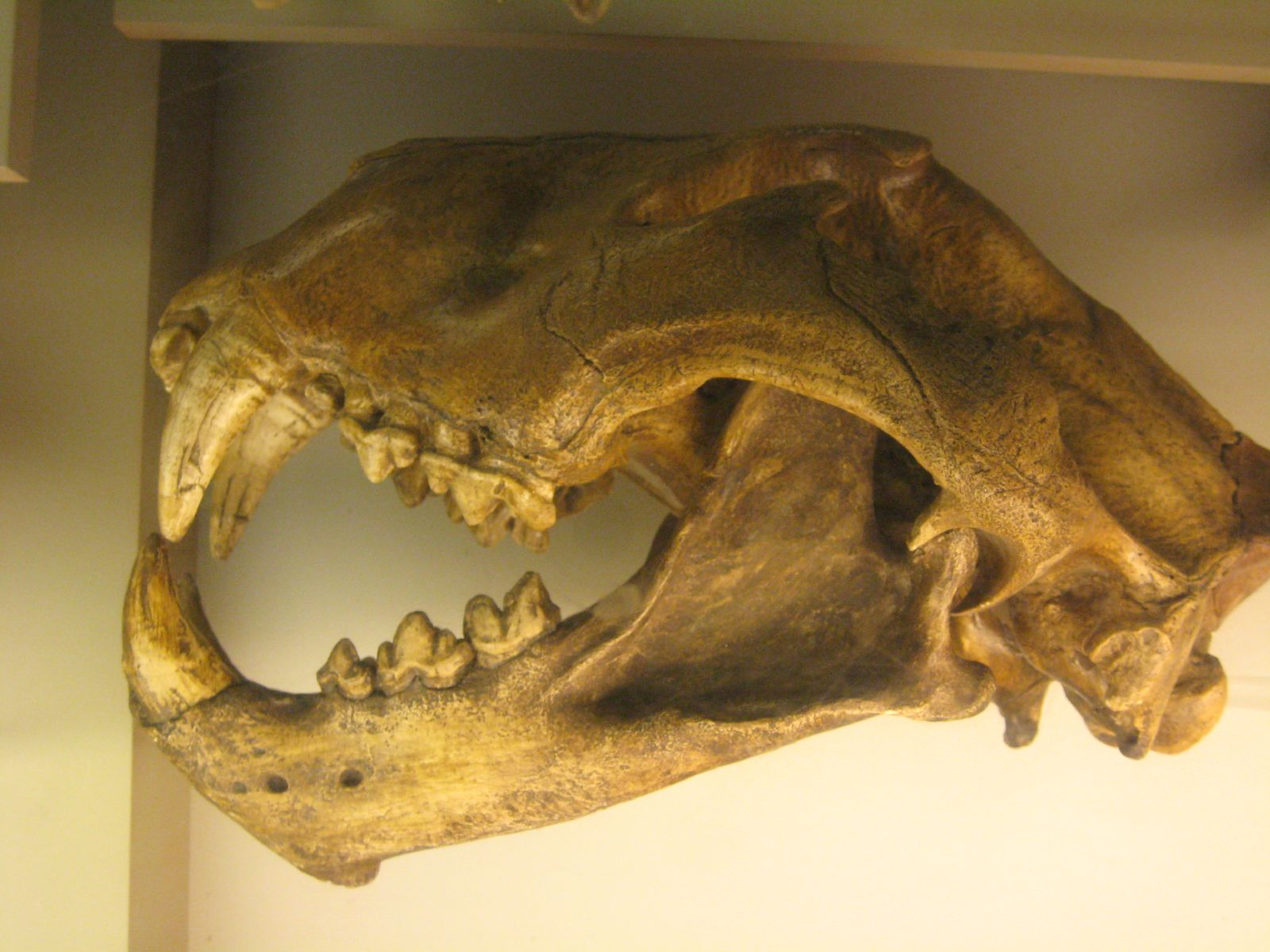 30,000 - 12,000 years old Late Pleistocene